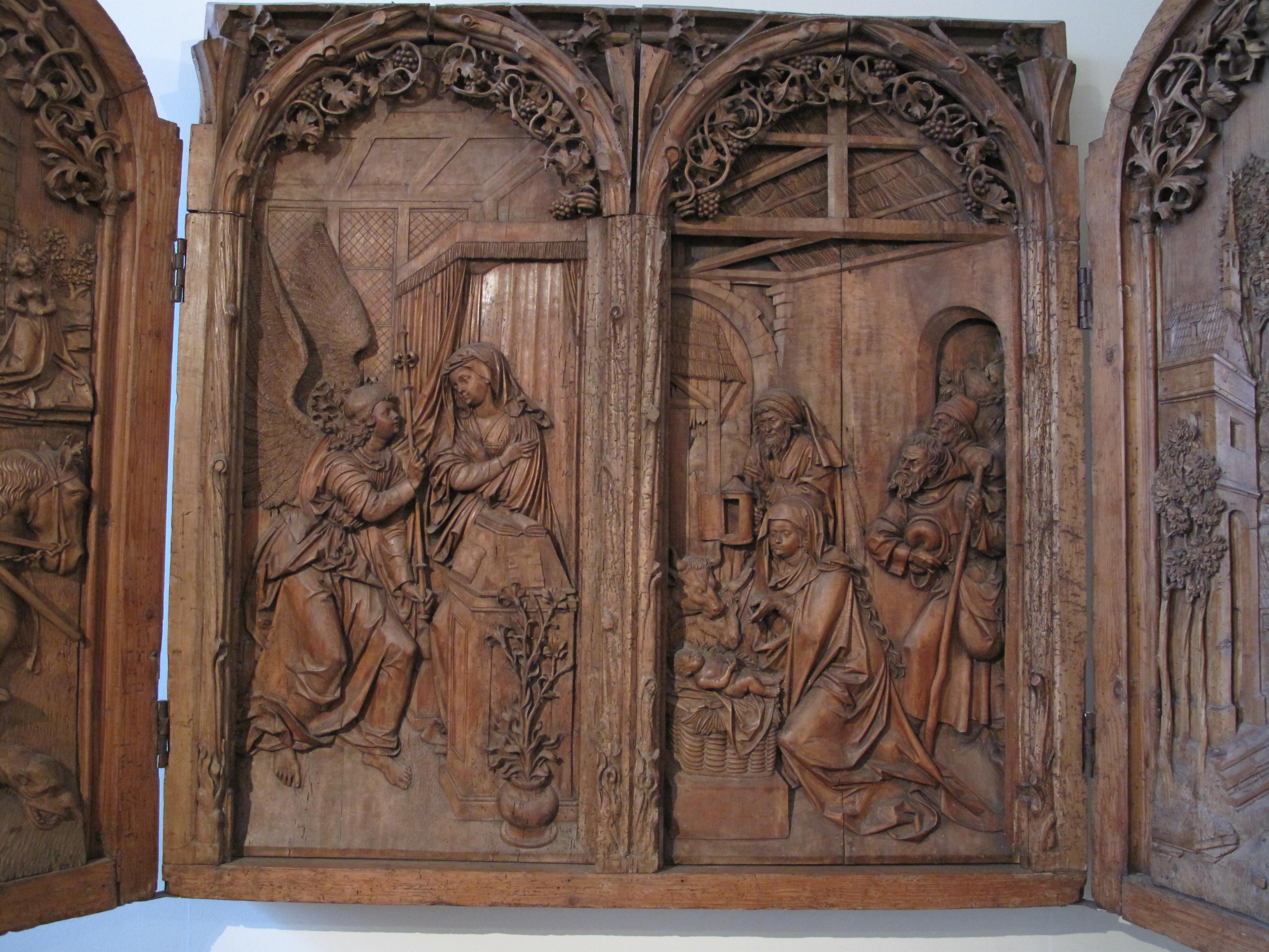 Central part of the rétable de Bergheim (Bergheim altar). Attributed to Veit Wagner ca 1515. On the left the Annonciation, on the right the Adoration by the sheperds. Unterlinden museum, Colmar, France.